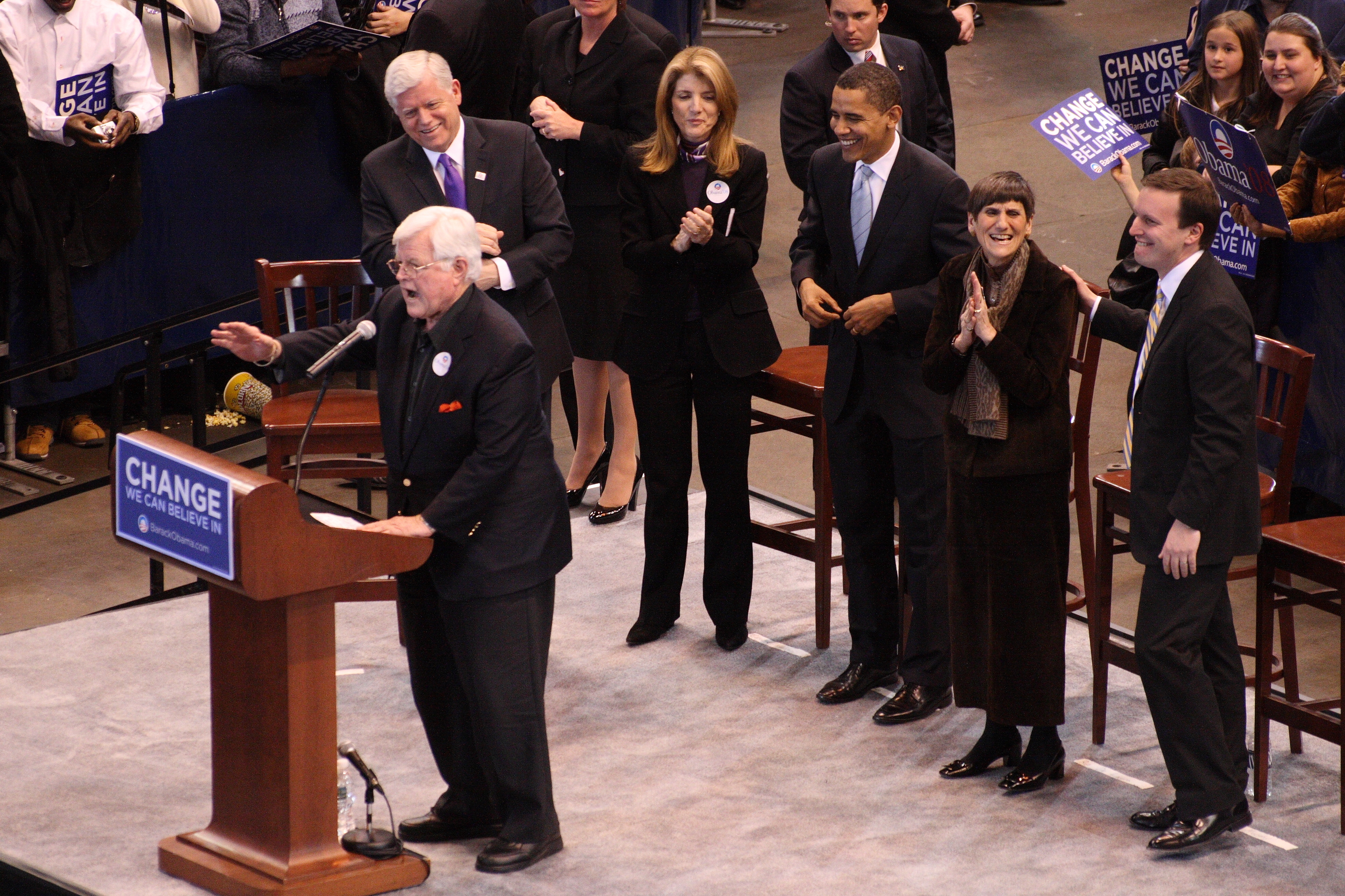 Massachusetts Senator Ted Kennedy, speaking at a rally for the presidential campaign of Senator Barack Obama in Hartford, Connecticut. Congressional Representatives Rosa DeLauro, Chris Murphy and John B. Larson are onstage behind Ted Kennedy, along with Caroline Kennedy and Barack Obama.